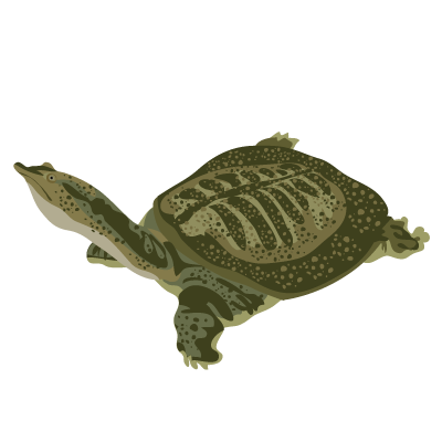 Chinese soft-shelled turtle